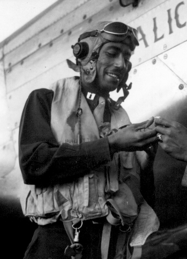 Captain Wendell O. Pruitt, a member of the Tuskegee Airmen, in front of an airplane.